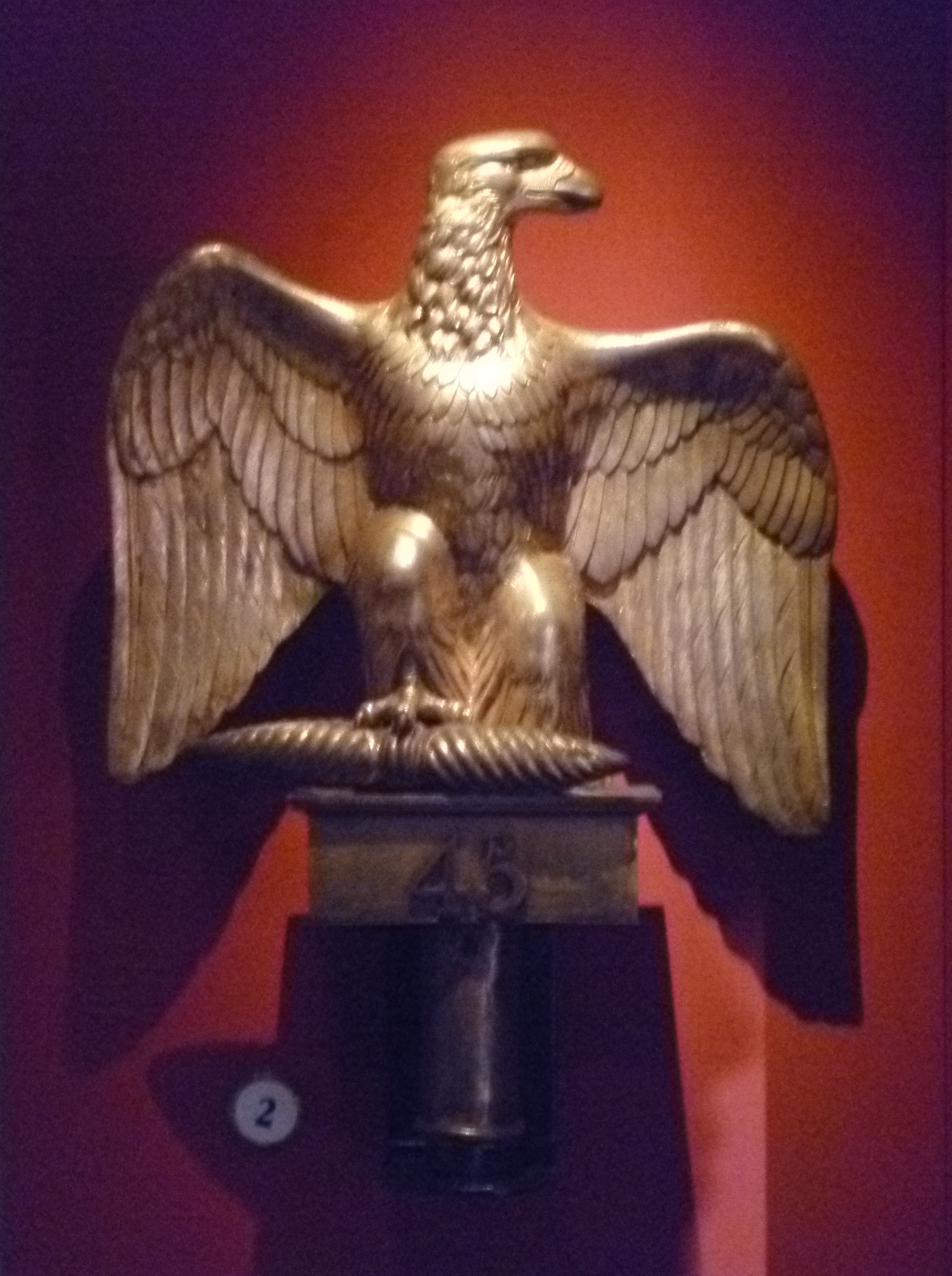 Napoleonic imperial eagle from the standard of the French 45th Regiment, captured single-handedly by Ensign Ewart during the cavalry charge of the Royal Scots Greys at the battle of Waterloo in 1815. The cost of an eagle: "One made a thrust at my groin. I parried it off and cut him through the head. A lancer came at me - I threw the lance off by my right side and cut him through the chin and upwards through the teeth. Next, a footsoldier fired at me, and then charged me with his bayonet, which I also had the good luck to parry, and then I cut him down through the head." -- Ensign Ewart describing his capture of the eagle.